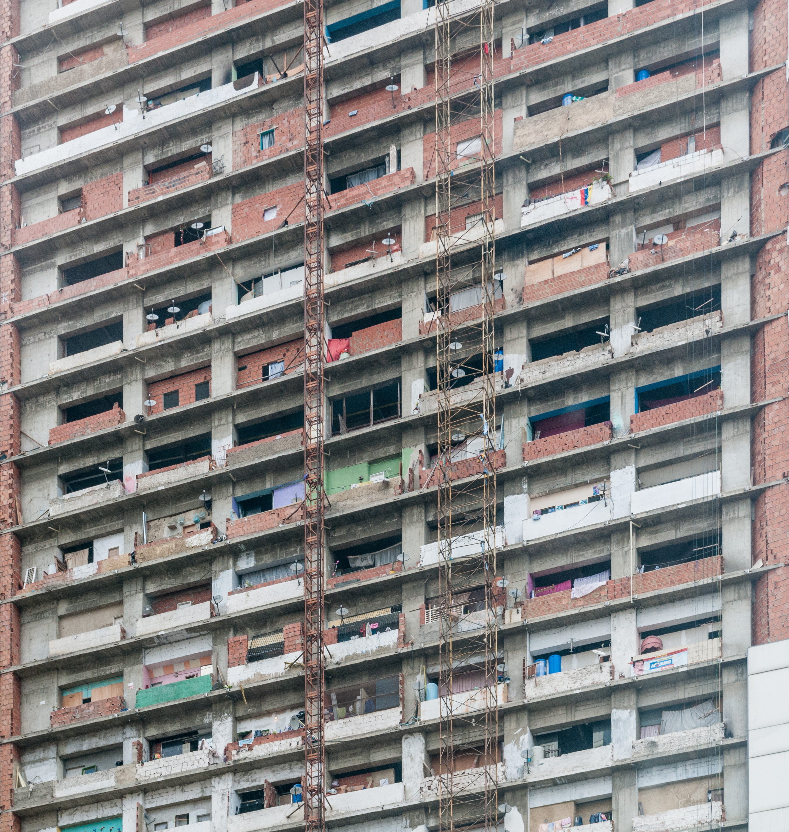 Vertical slum invasion in Caracas.